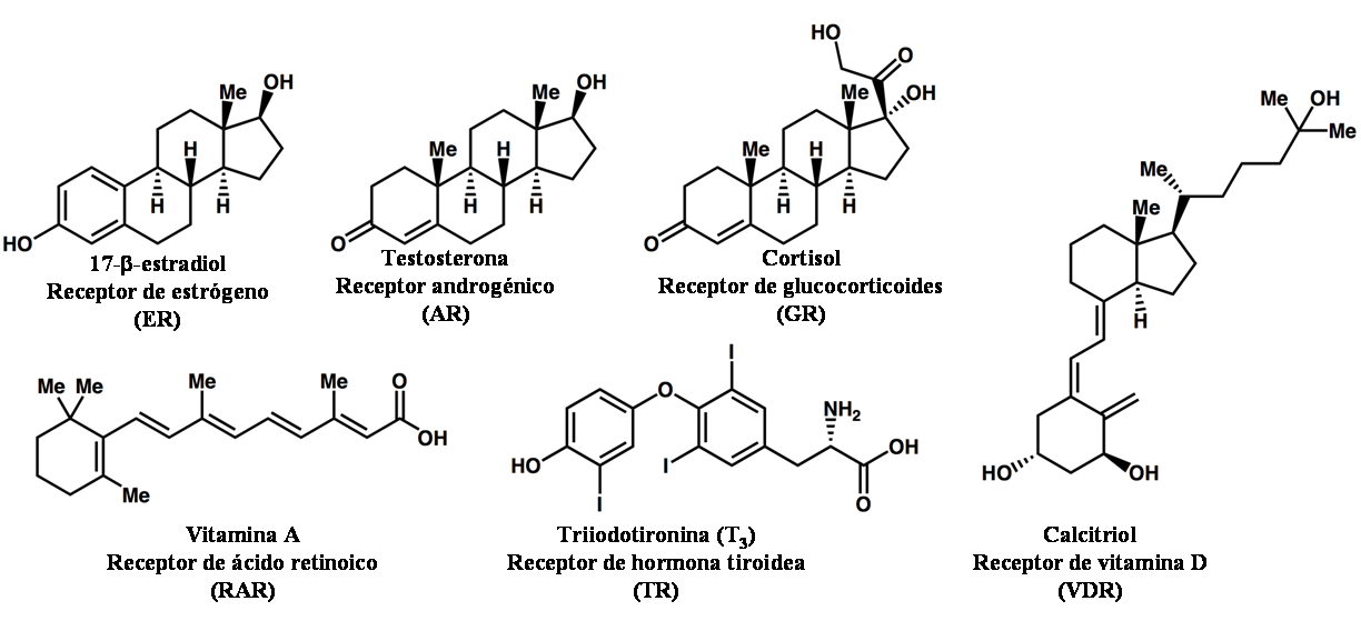 Created by user:Boghog2 using Cambridgesoft Chemdraw. Structures of selected endogenous nuclear receptor ligands and the name of the receptor that each binds to